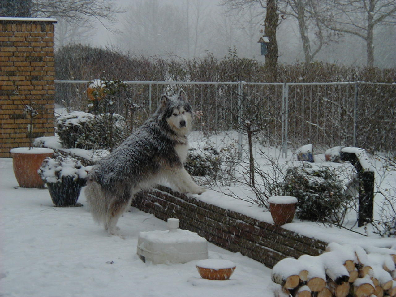 Own photo (author of danish wiki-article on Alaskan Malamute)